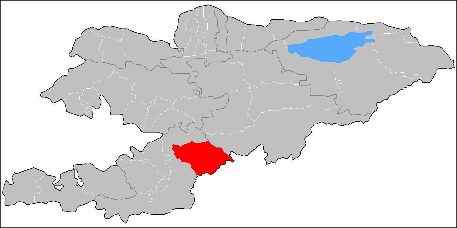 The location of the raion (district) of Kara-Kulja in Kyrgyzstan. Based on Image:Kyrgyzstan raions.png